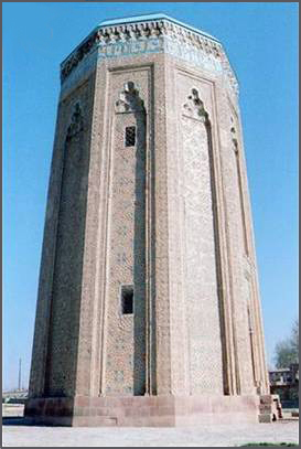 The Momine Khatun Mausoleum in Nakhichevan (Naxçıvan), Nakhichevan Autonomous Republic (Naxçıvan Muxtar Respublikası), Azerbaijan.